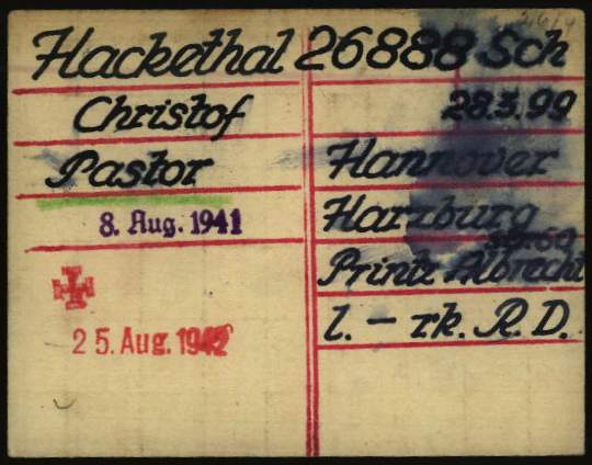 Registry card of Christoph Hackethal as a prisoner at Dachau Nazi Concentration Camp The cross signals the day of his death (stamped in red)